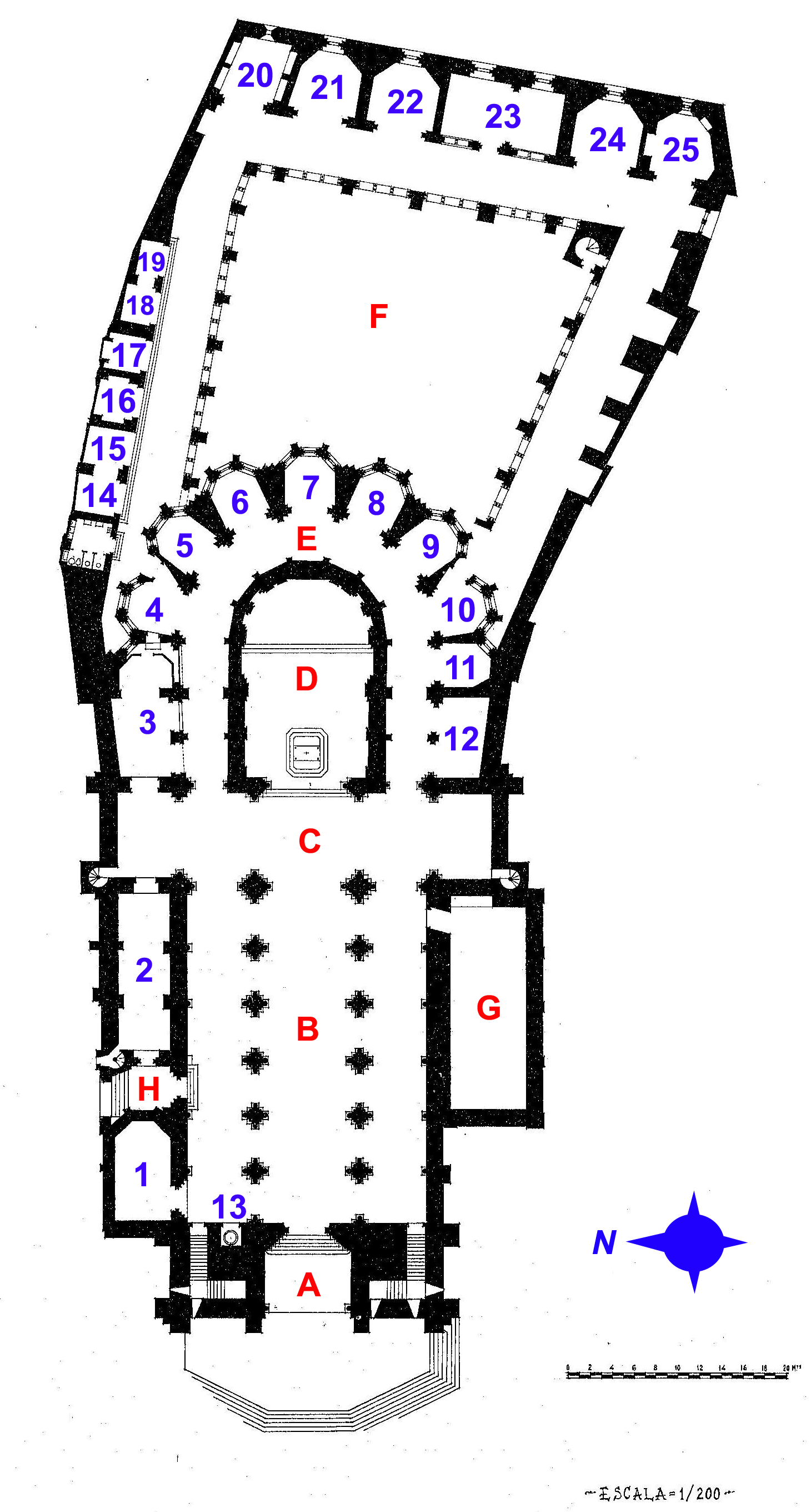 Scheme of Lisbon Cathedral with labels